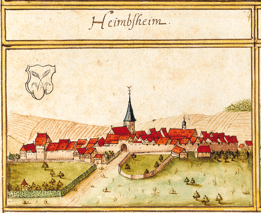 View of Heimsheim from the forest register books created by Andreas Kieser